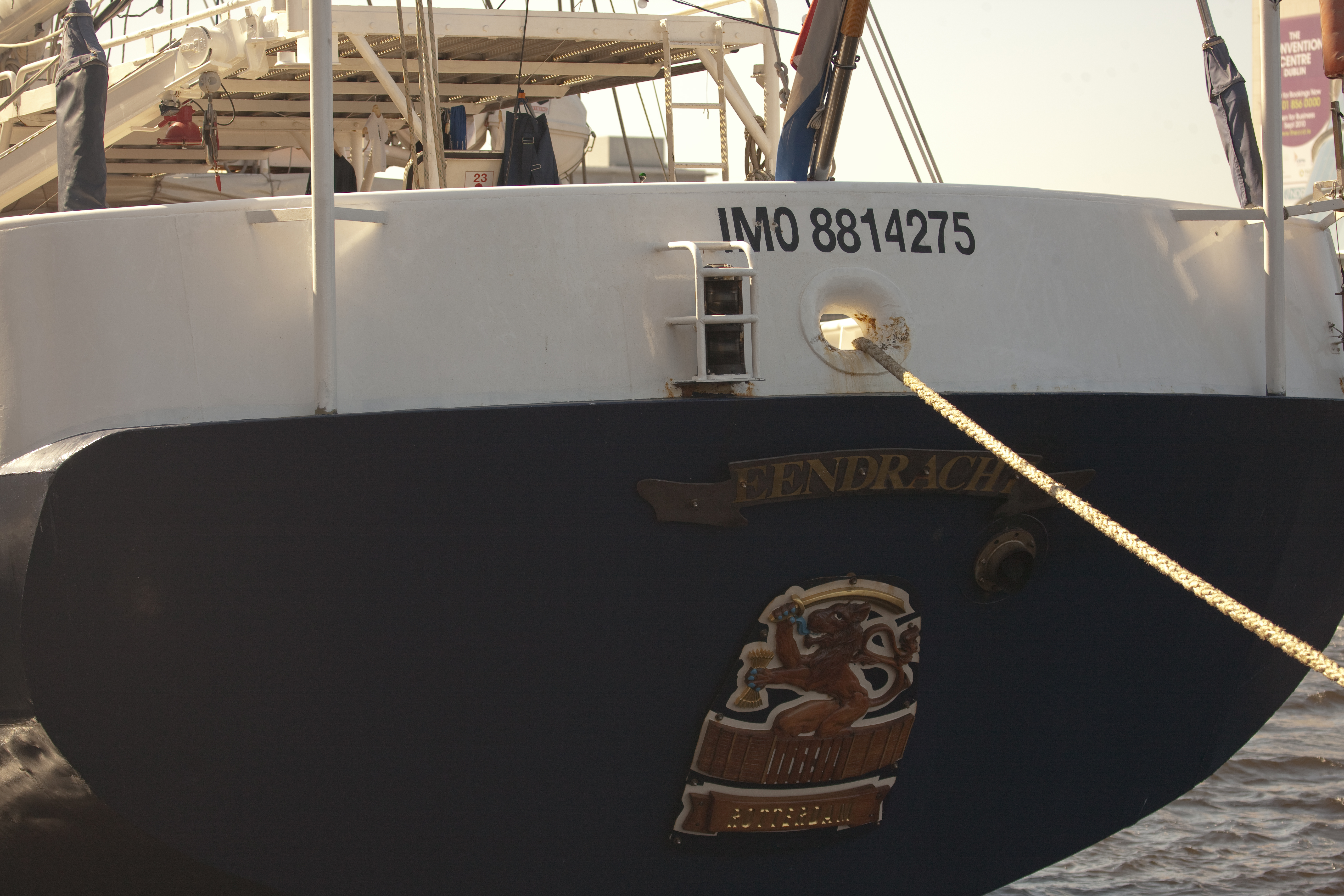 Eendracht at Dublin Information about Eendracht may be found at IMO 8814275. A ship can change name and flag state through time, but the IMO number remains the same through the hull's entire lifetime. As a result, it can be useful to identify a ship by using the IMO number.